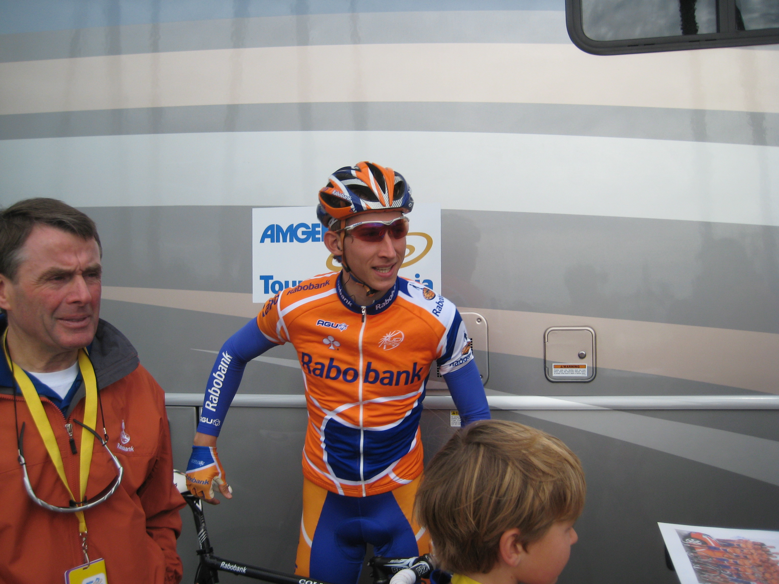 Bauke Mollema of Team Rabobank, posing for a fan photo with former Dutch professional cyclist Hennie Kuiper, before racing from Santa Barbara to Valencia in 2008 Amgen Tour of California.